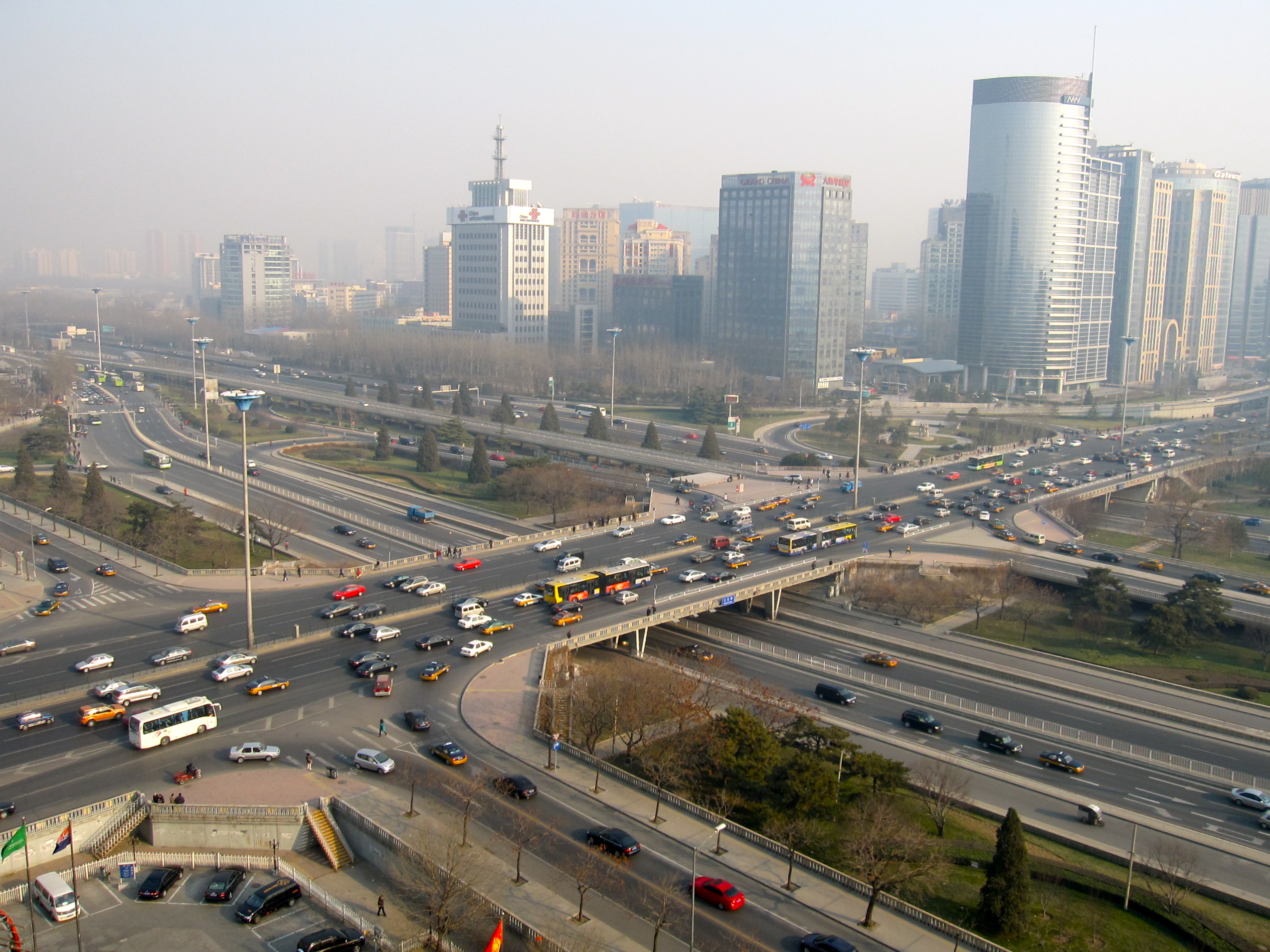 View of Beijing from the CTS Hotel. This is intersection of Airport Expressway and 3rd Ring Road.